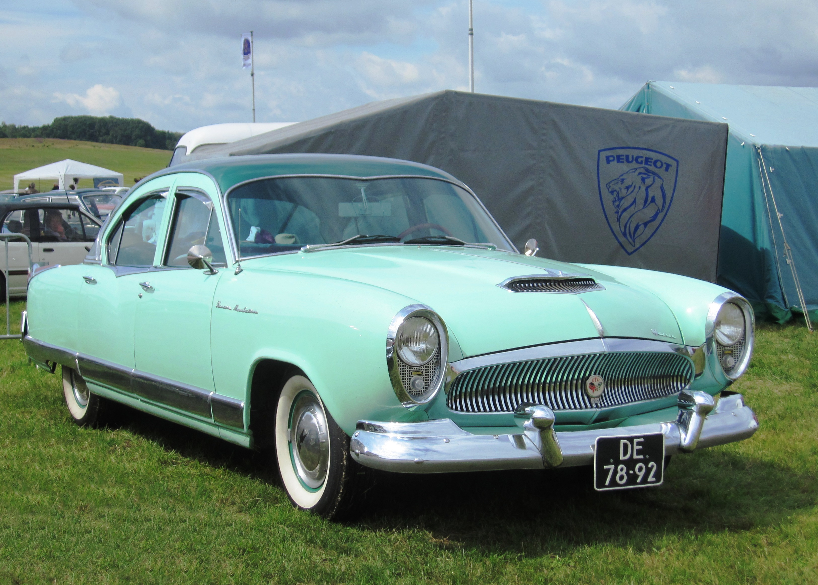 Kaiser Manhattan at Schaffen-Diest They changed the front in a facelift in or for 1954 which makes this, I think, a 1954 or 1955 car (though according to some sources encountered via google) in some years high levels of unsold inventory at the year end which ended up being sold off the next year make the precise dating of Manhattans during this period confusing). Engine size per Dutch tax office web site 3770cc / 6 cylinders